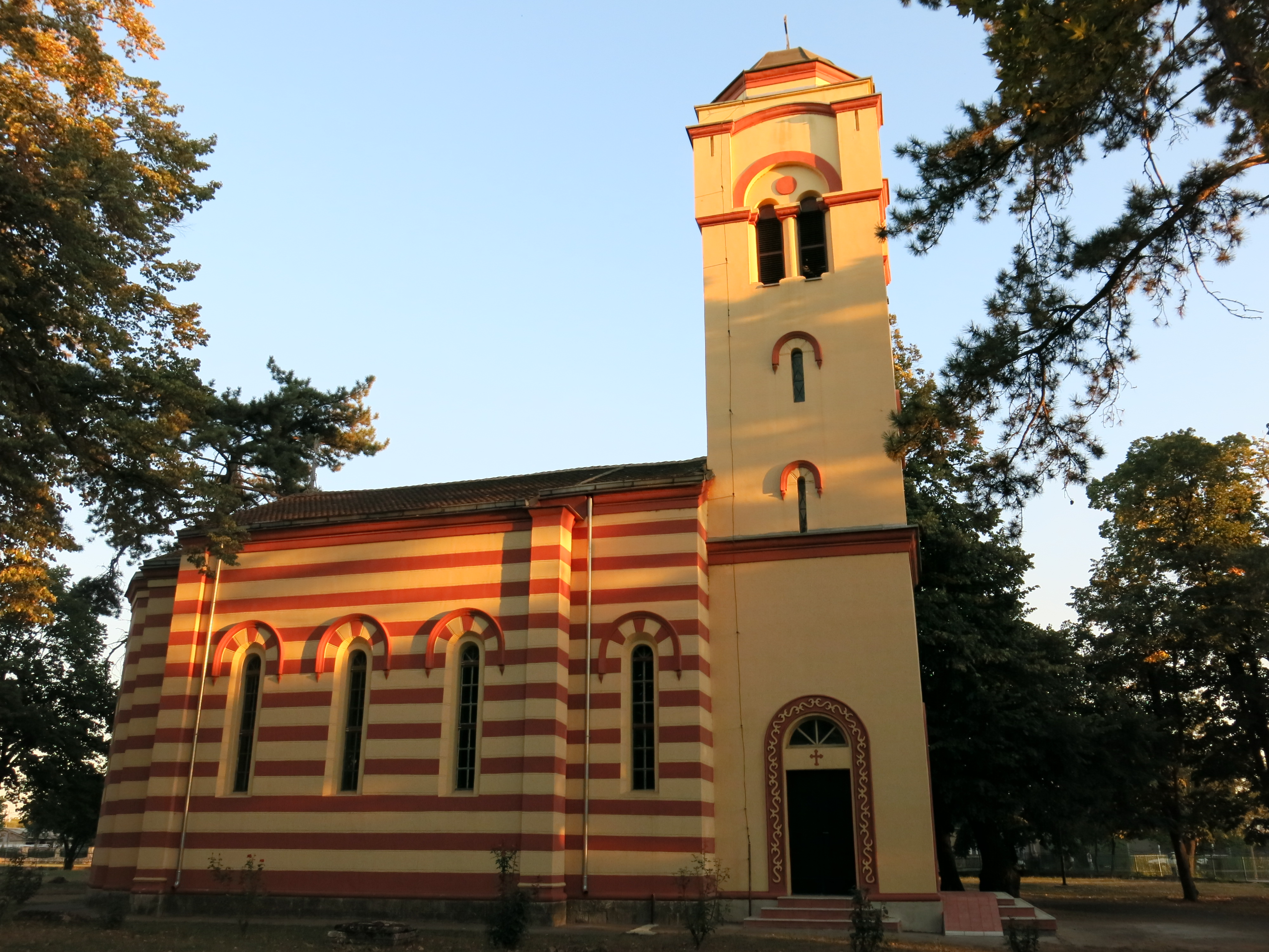 Vranovo, Holy Trinity Church